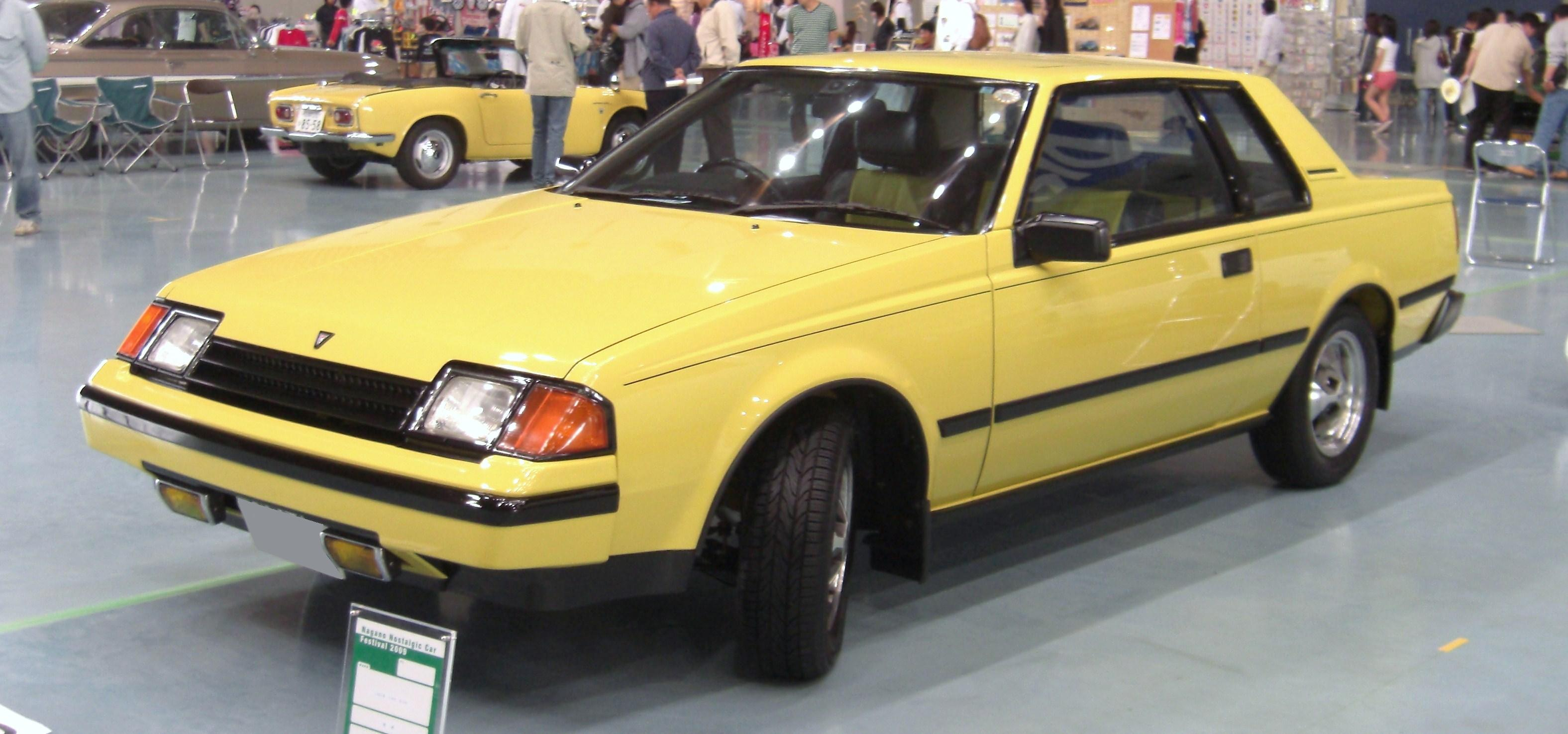 Toyota Celica